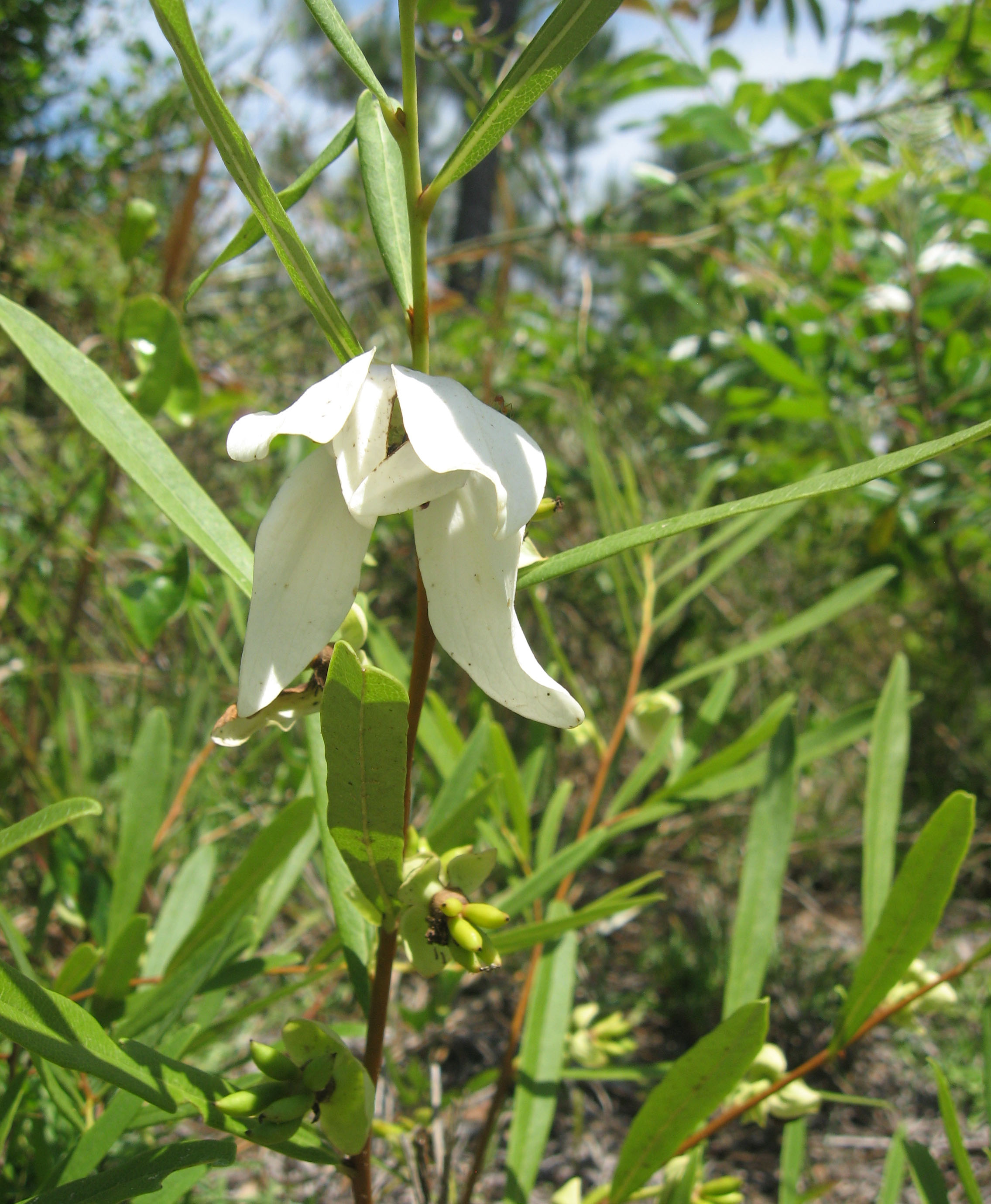 Asimina longifolia var. longifolia — Slimleaf pawpaw. In pine savanna at Stephen Foster Folk Culture Center State Park, Hamilton County, Florida.